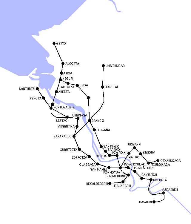 Map of a project for Bilbao metro, 1976.